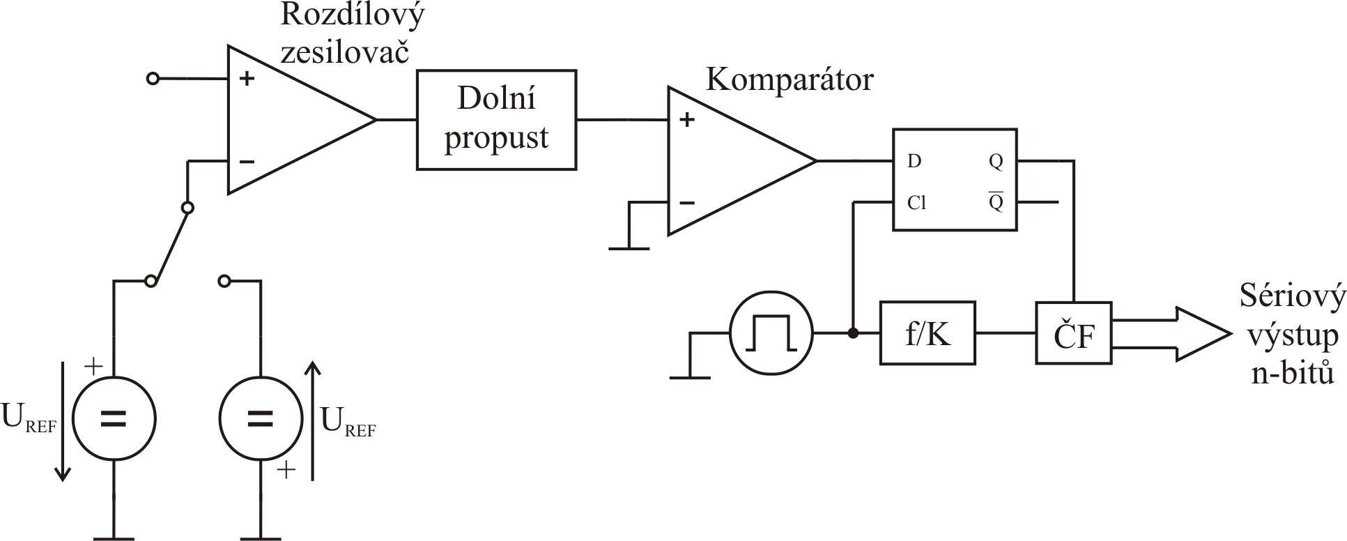 ADC